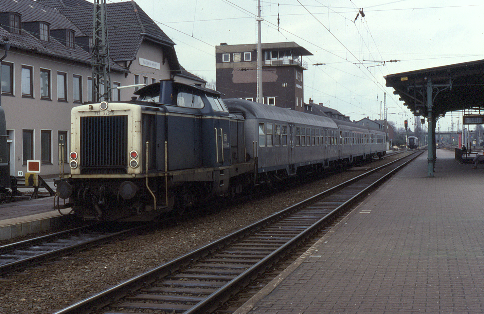 212.325 at Haltern (Westf) having arrived on the 15:39 Langenberg to Haltern (Westf).